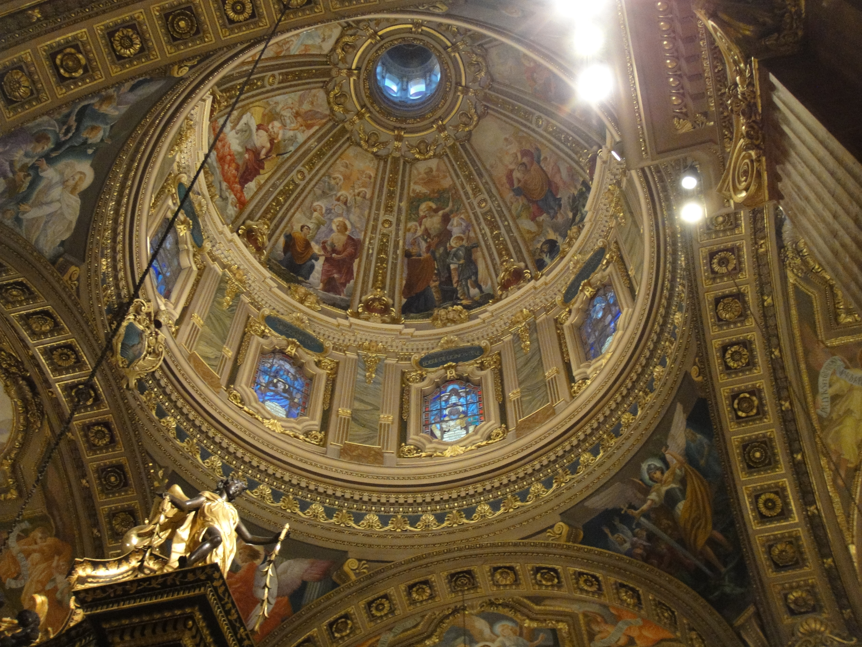 The interior of the dome of St George's Basilica Gozo.